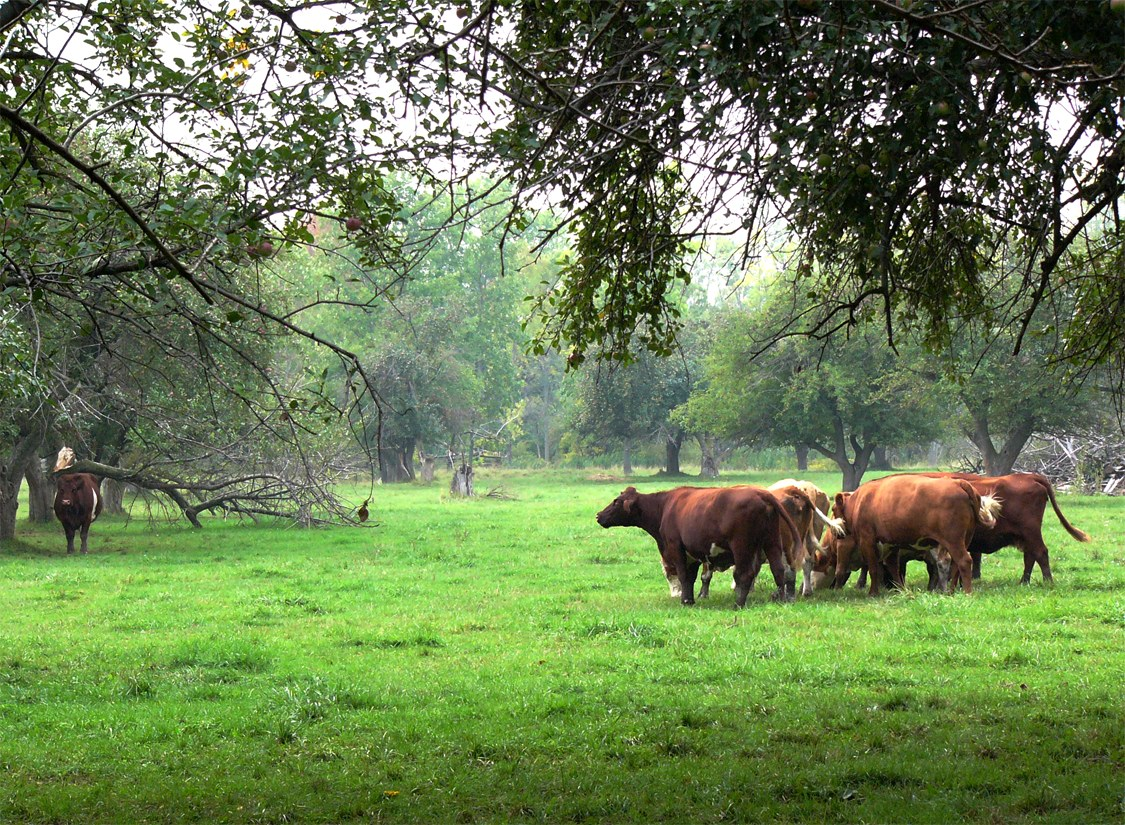 Bronte Creek Conservation Area